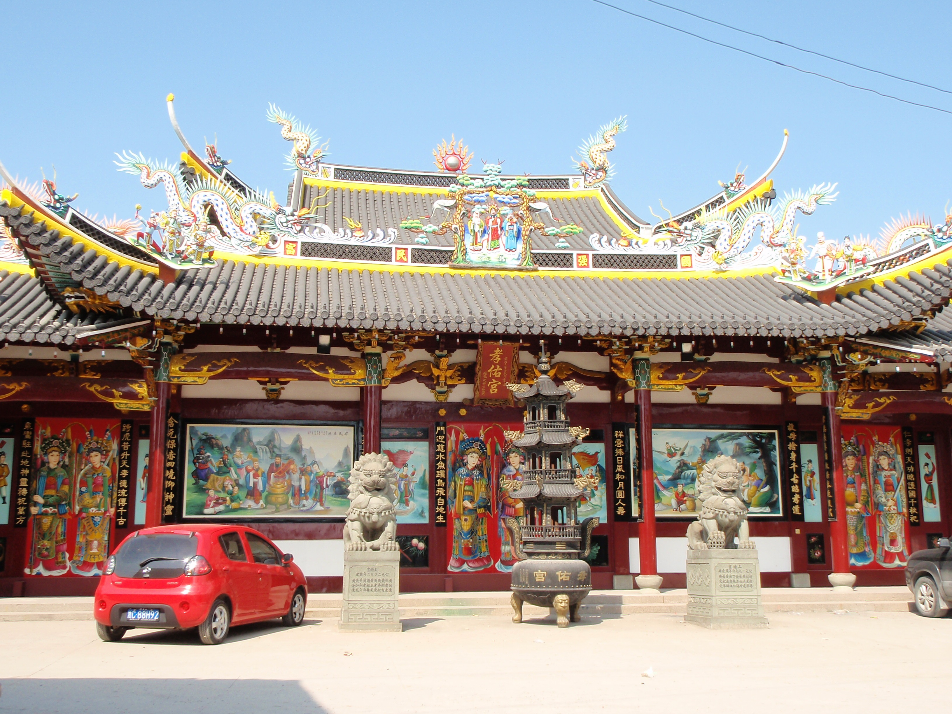 孝佑宫 Xiàoyòu gōng = "Temple of the Filial Blessing".